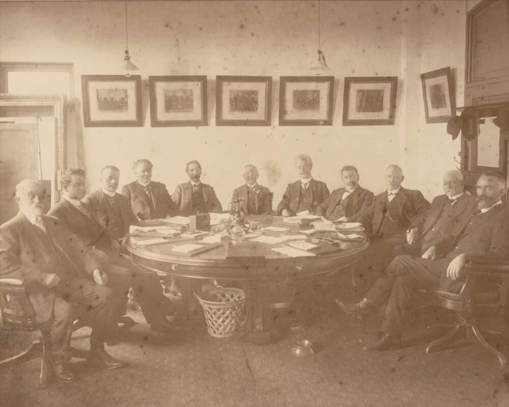 The Hughes Ministry between November 1916 and February 1917